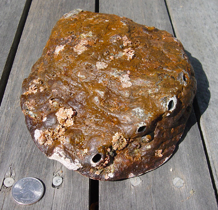 The outside of a Californian red abalone, Haliotis rufescens. This red abalone was harvested on North California coast in May, 2005. An American quarter dollar coin is included in the picture to provide scale. The picture shows some sea plants growing on top of the shell. Note the 4 holes on the right hand side.